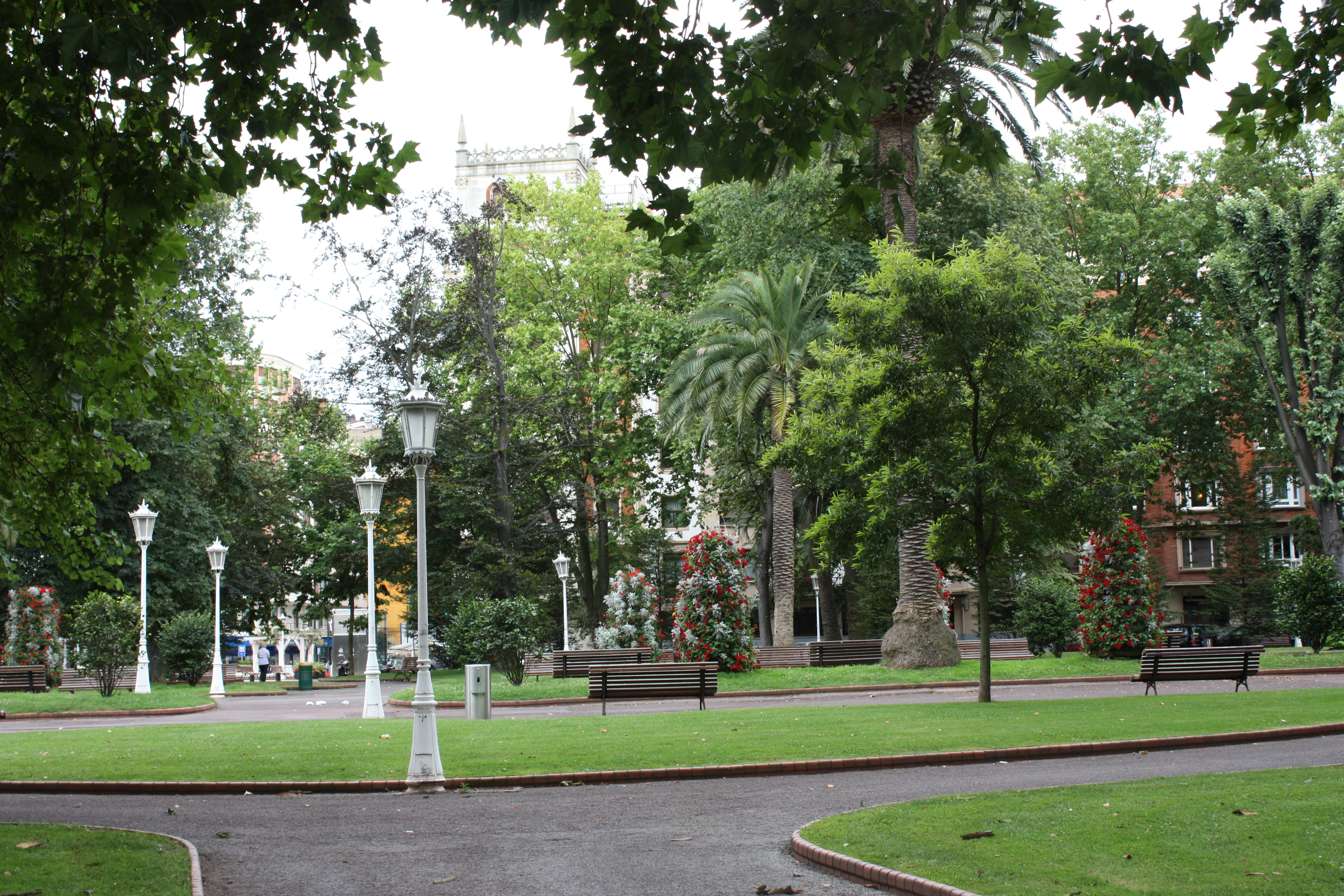 Doña Casilda Iturrizar Park, Bilbao, Biscay, Spain, July 2010